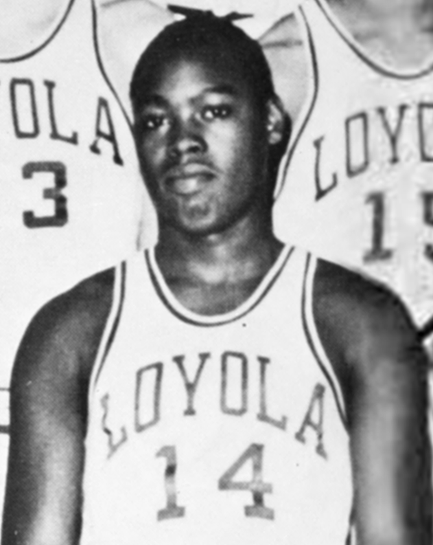 A group photo of the 1962–63 Loyola Ramblers men's basketball team, winners of the 1963 NCAA National Championship